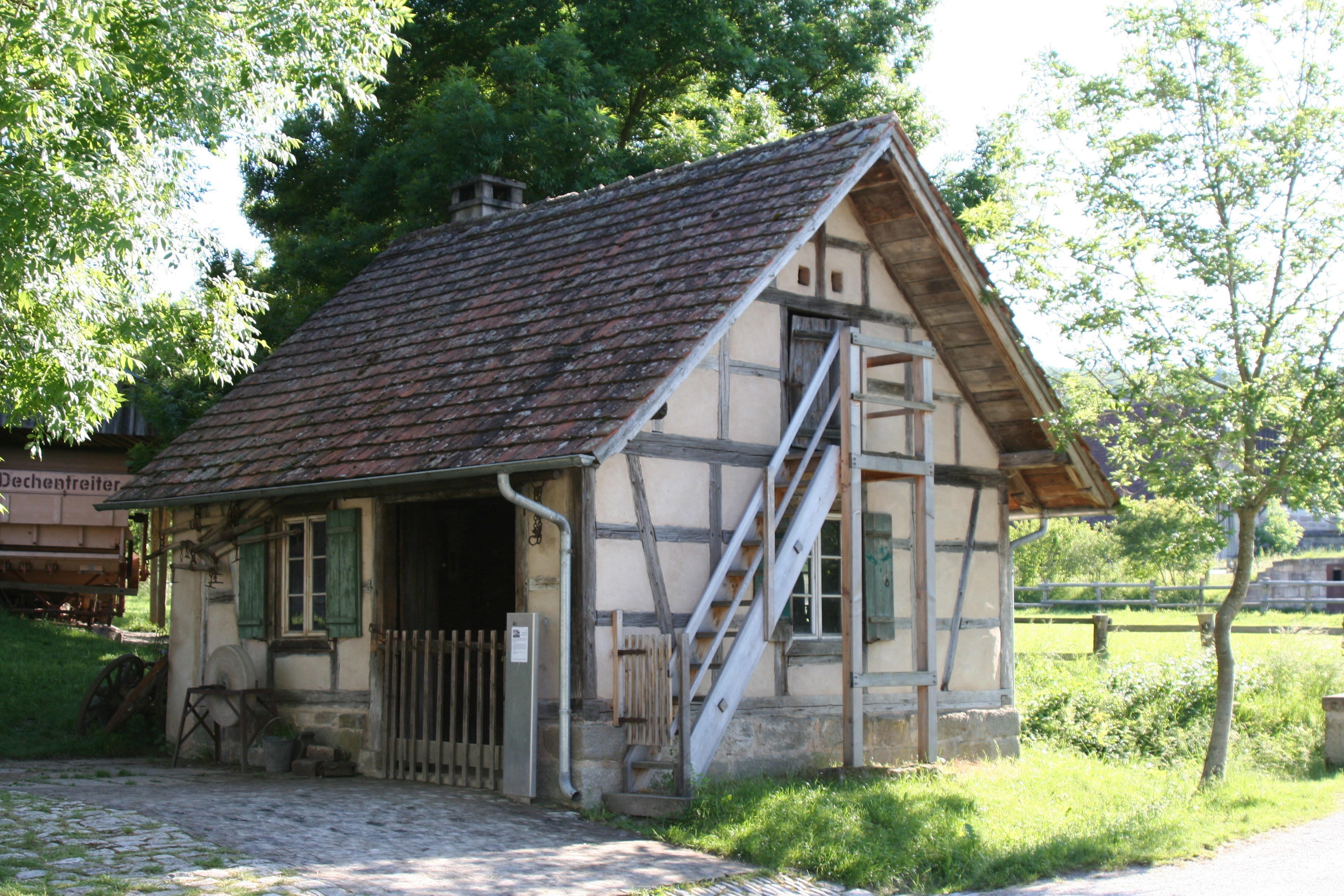 The Open Air Museum Wackershofen. Blacksmith's workshop from Großenhub, municipality Fichtenau